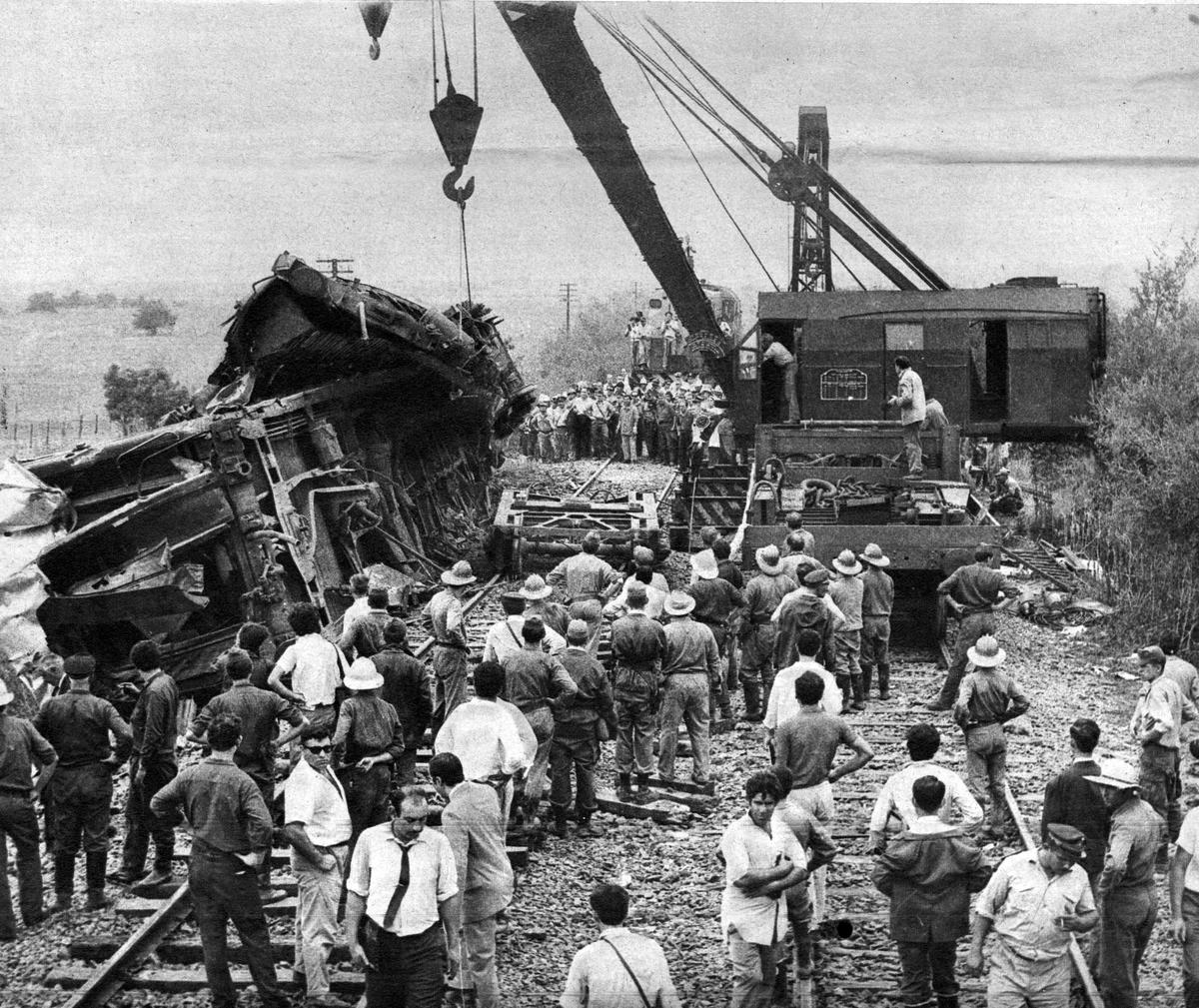 Rail transport accident in Benavídez.